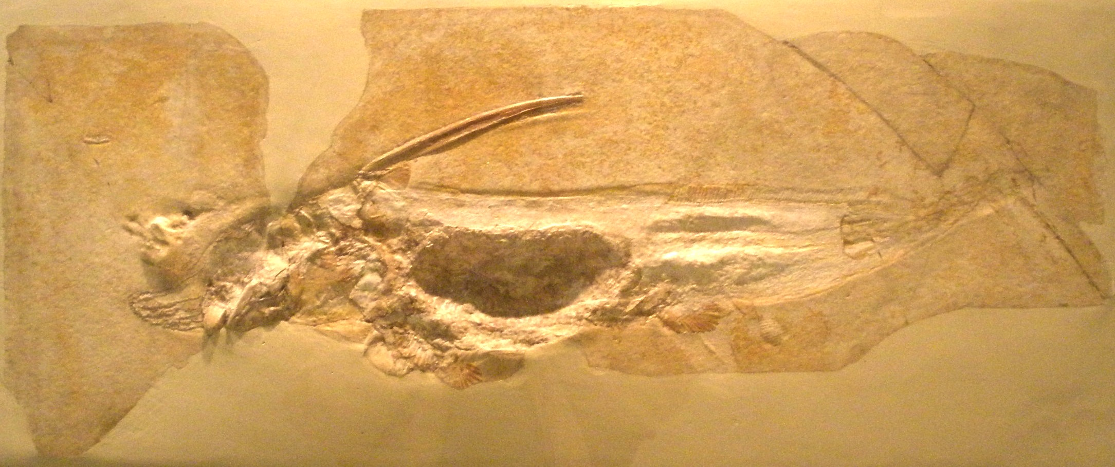 Skeleton of Ischyodus avitus, a fossil fish DateApril 2008Sourcetook the foto on the "American Museum of Natural History" in New YorkAuthorGhedoghedoPermission (Reusing this file)